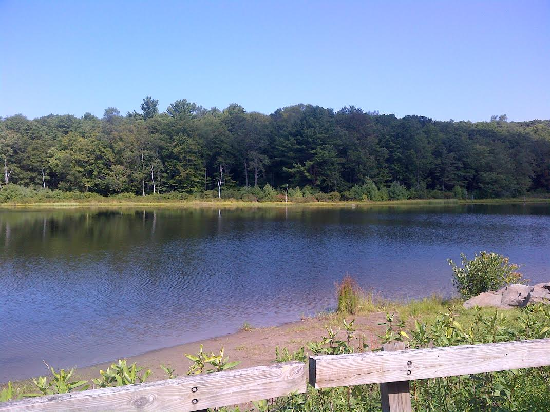 Lake at Bear Creek Camp Conservation Area. Campers may swim in designated area, and canoeing and kayaking are also available.